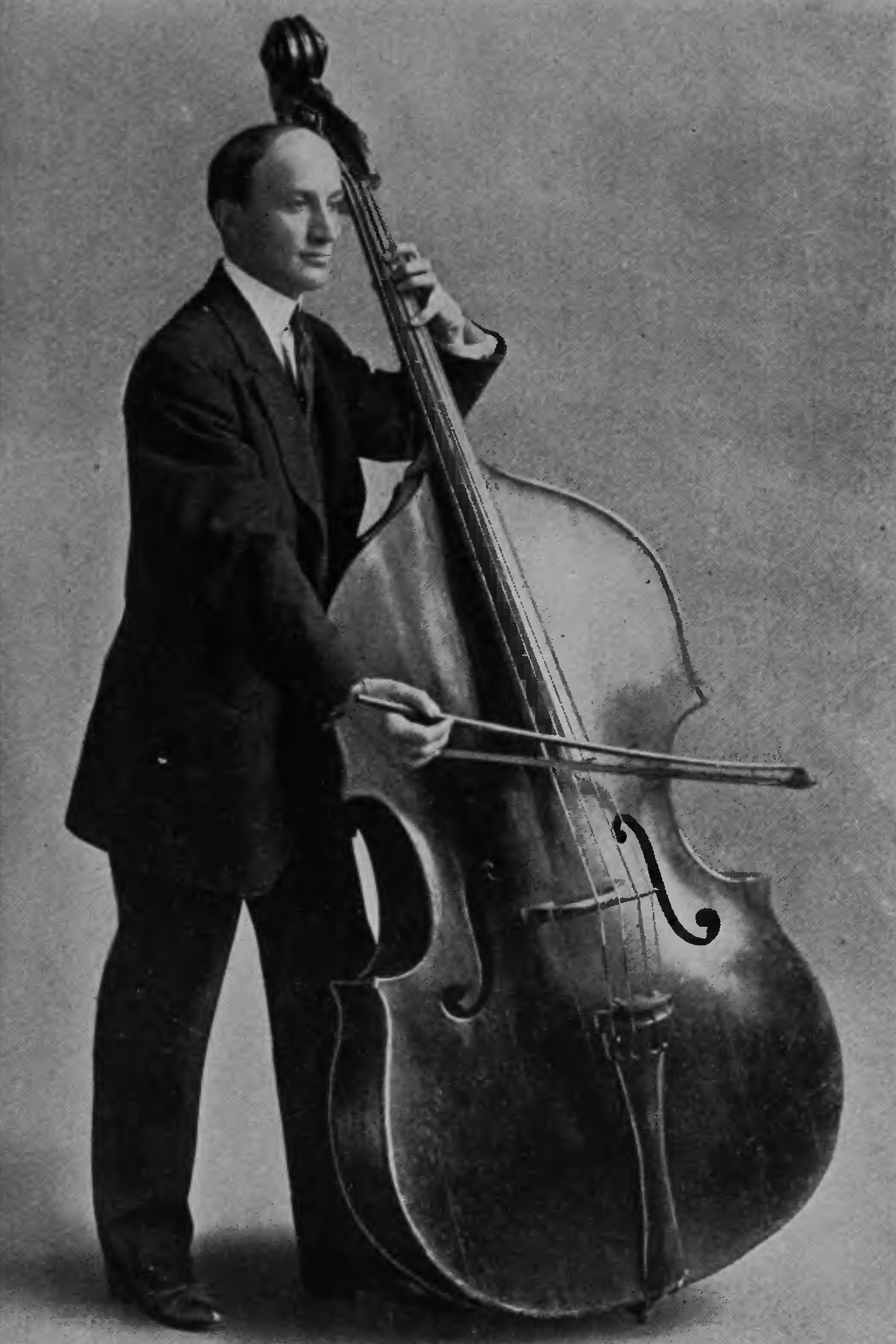 Umberto Buldrini (1879—1942) Principal Bass N. Y Philharmonic Orchestra